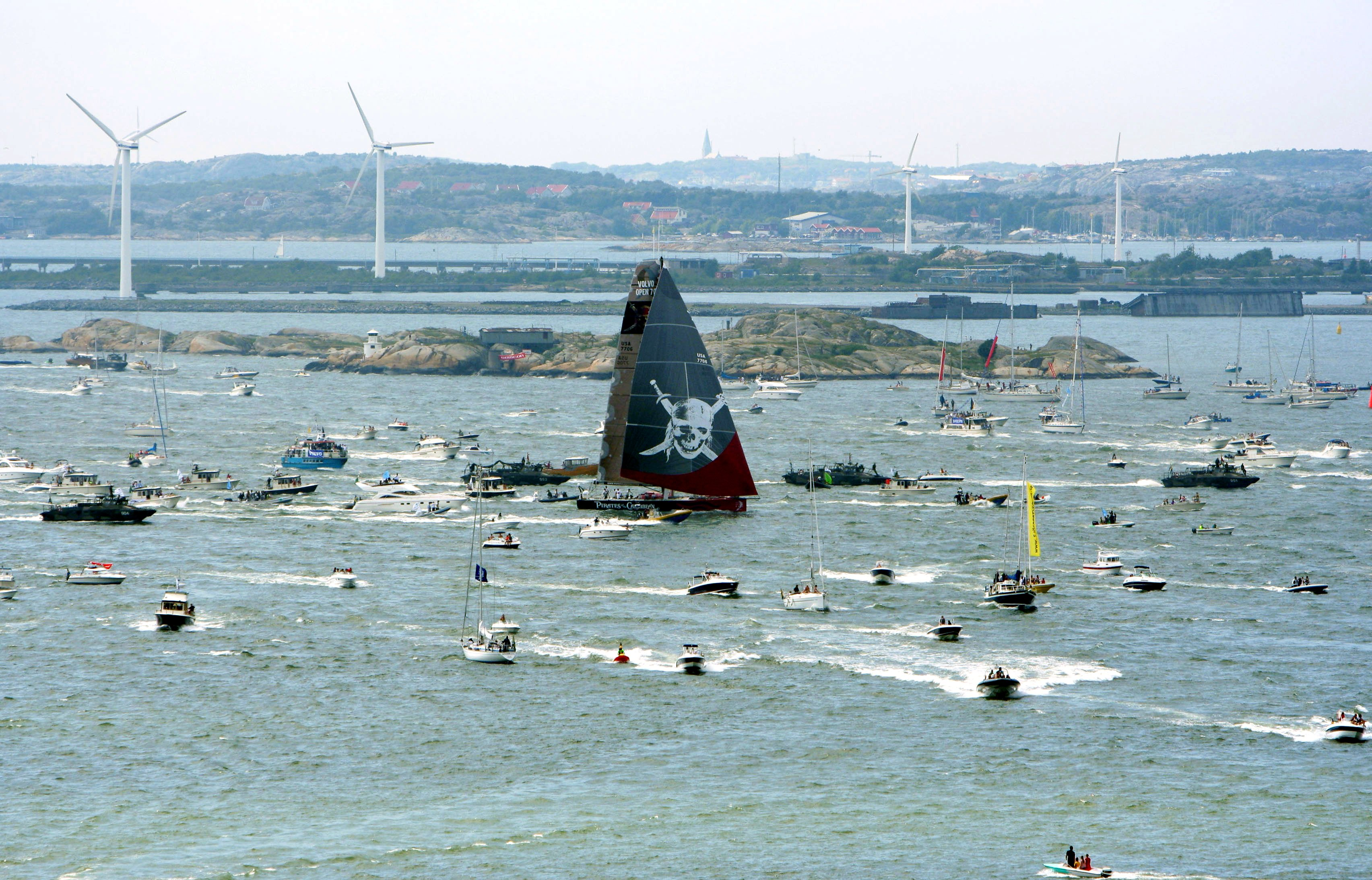 Picture of the VO70 boat "Pirates of the Caribbean" entering Gothenburg harbour at the end of the last leg of Volvo Ocean Race 2005/2006.